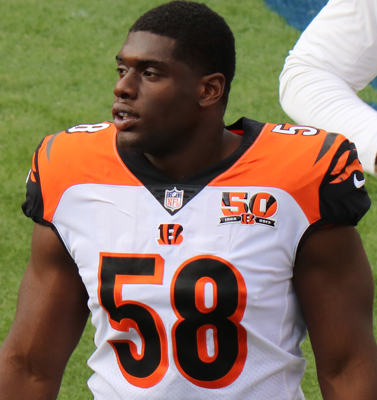 Carl Lawson, a National Football League player.